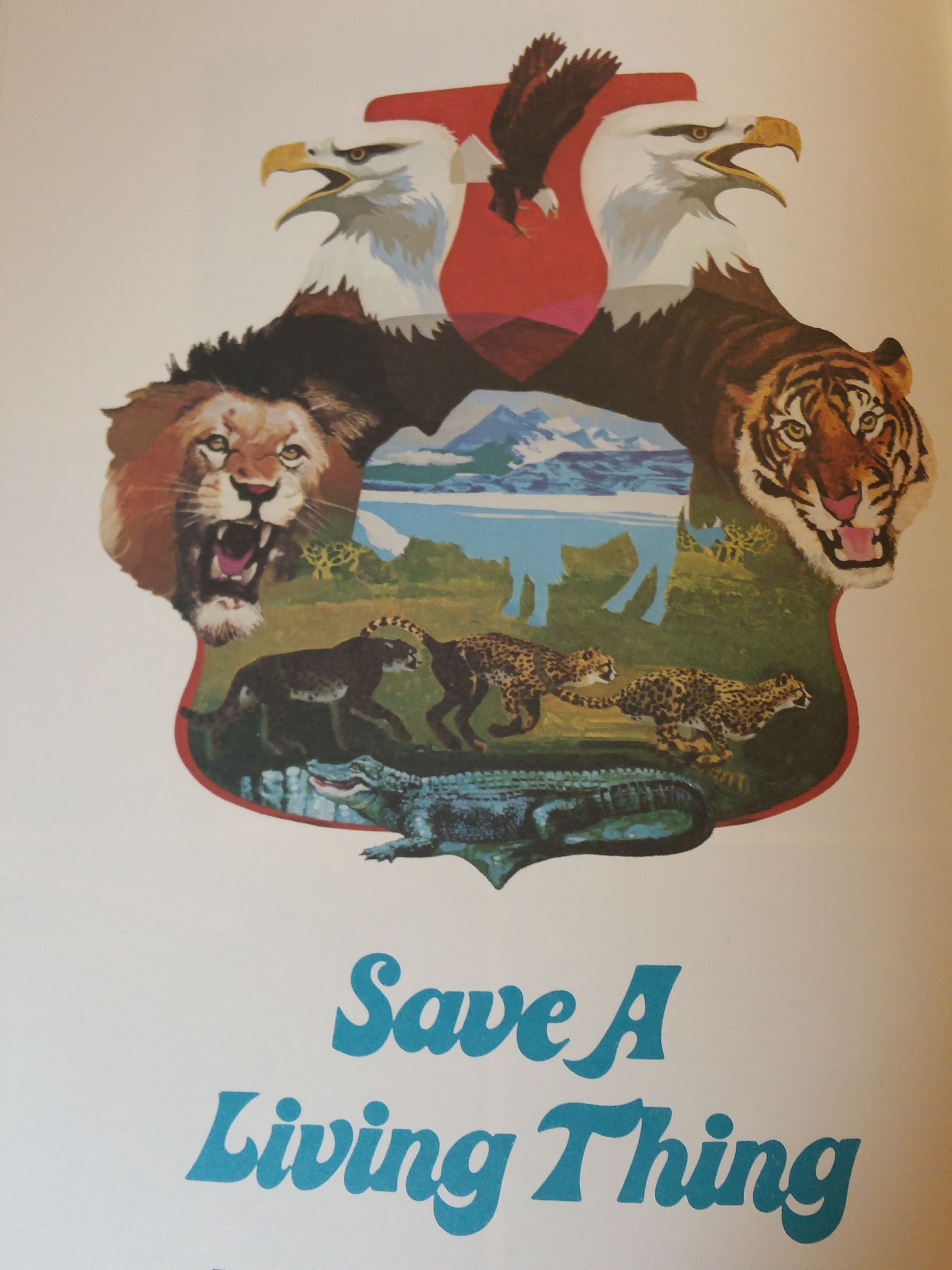 "Save A Living Thing" - Endangered Species Cup p.r. report cover.